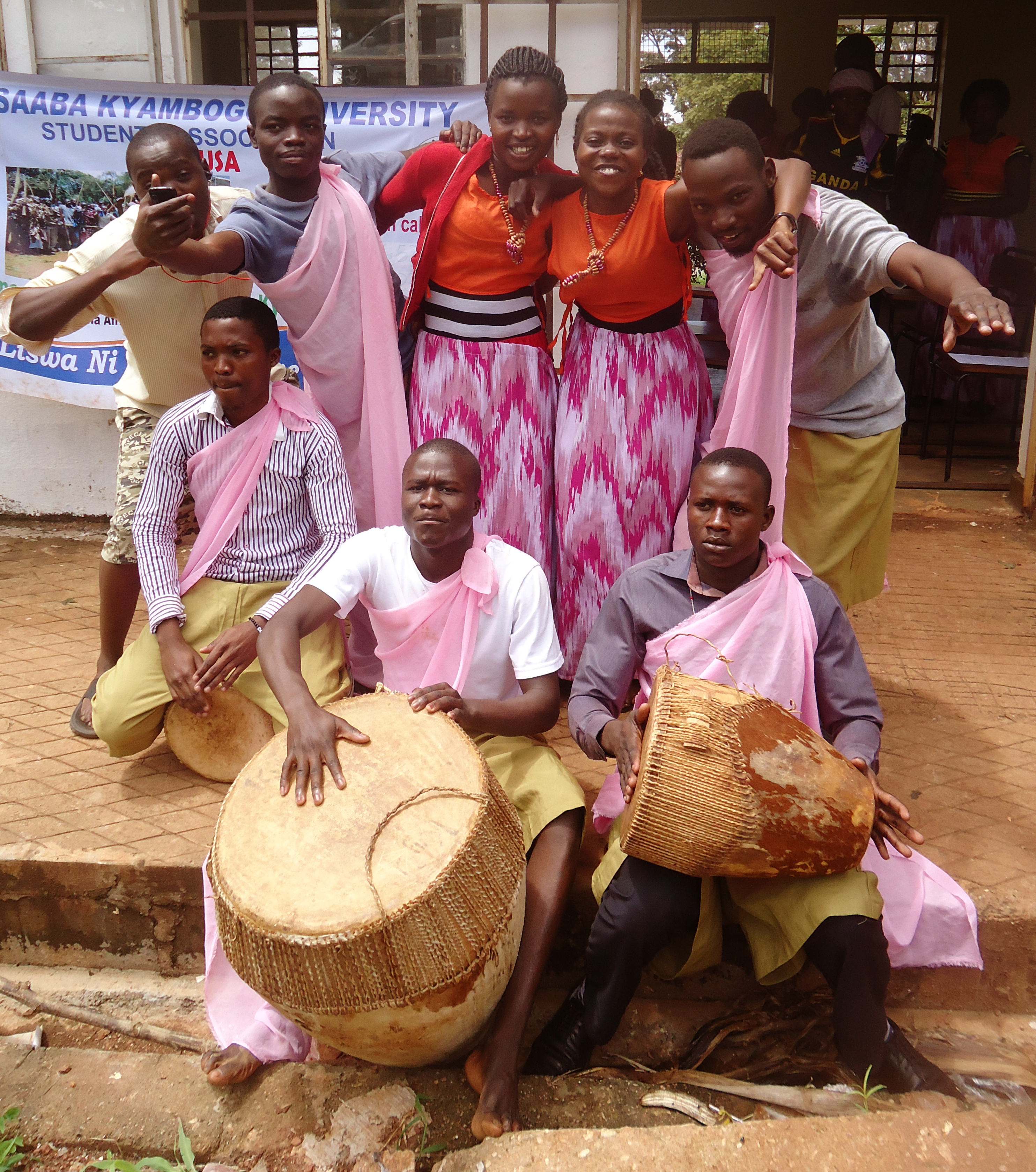 A group of dancers from Bamasaba culture pose for a photo This is an image of Cultural Fashion or Adornment from Uganda